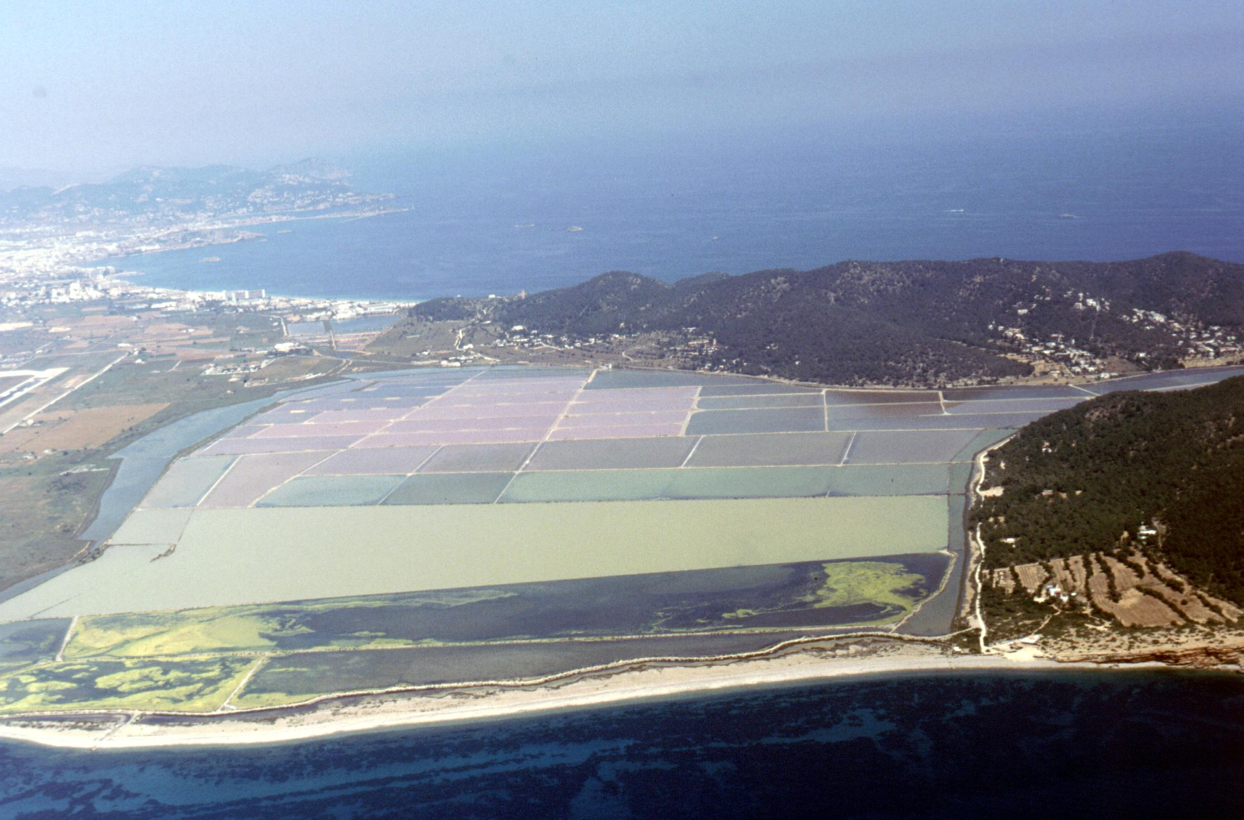 Salines d'Eivissa — in Eivissa, on Ibiza, the Balearic Islands. A Natural park of Spain, Ramsar site wetlands, and a Natural Area of Special Scientific Interest.